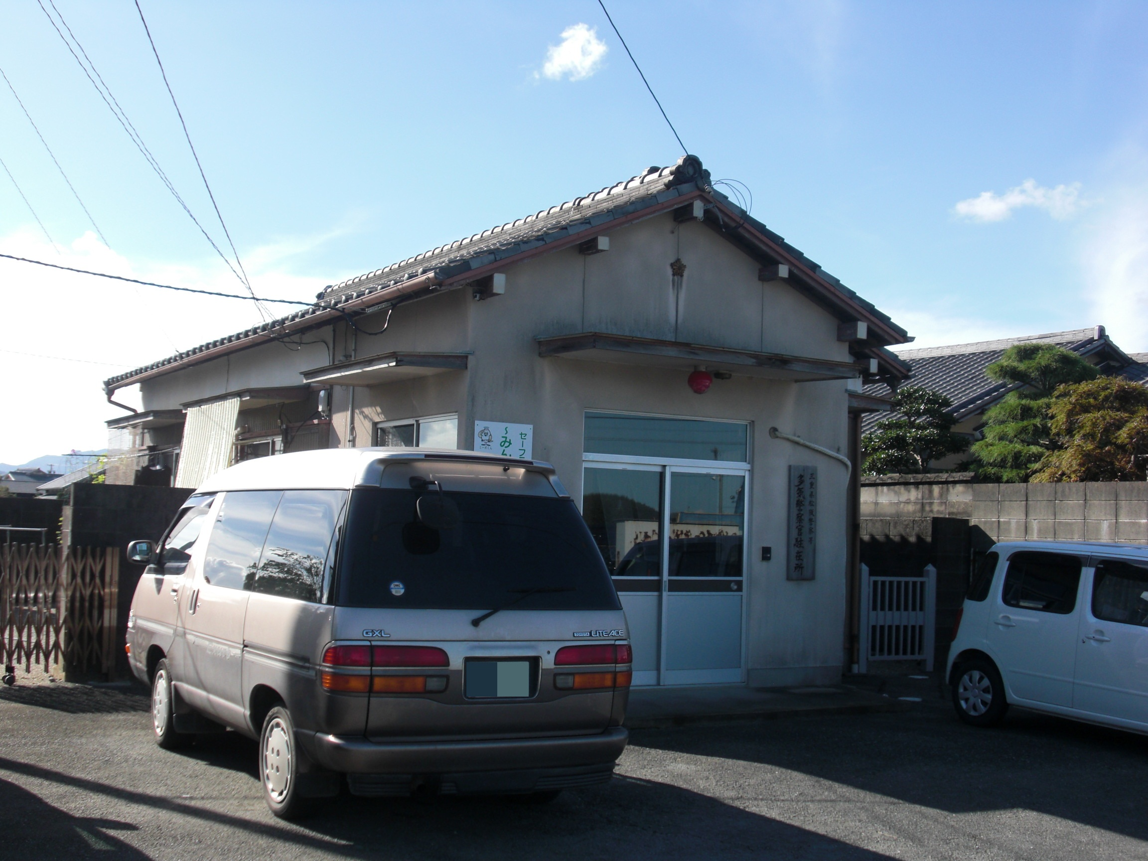 This is a police box in Taki, Mie, Japan.